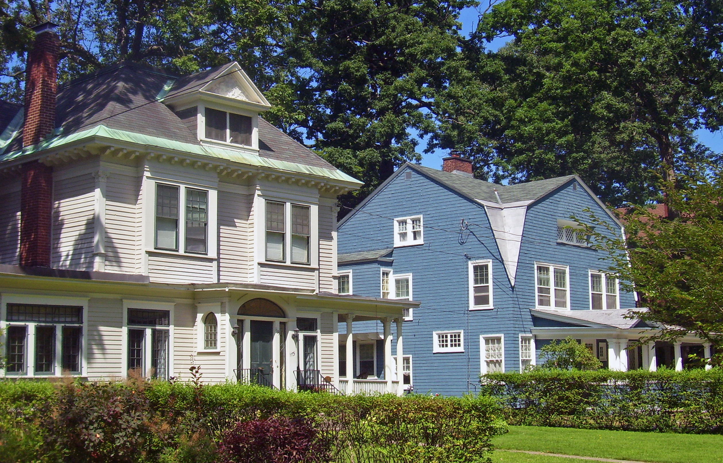 Houses on Stratford Road, across from the Irving Langmuir House in the General Electric Realty Plot neighborhood, Schenectady, NY, USA